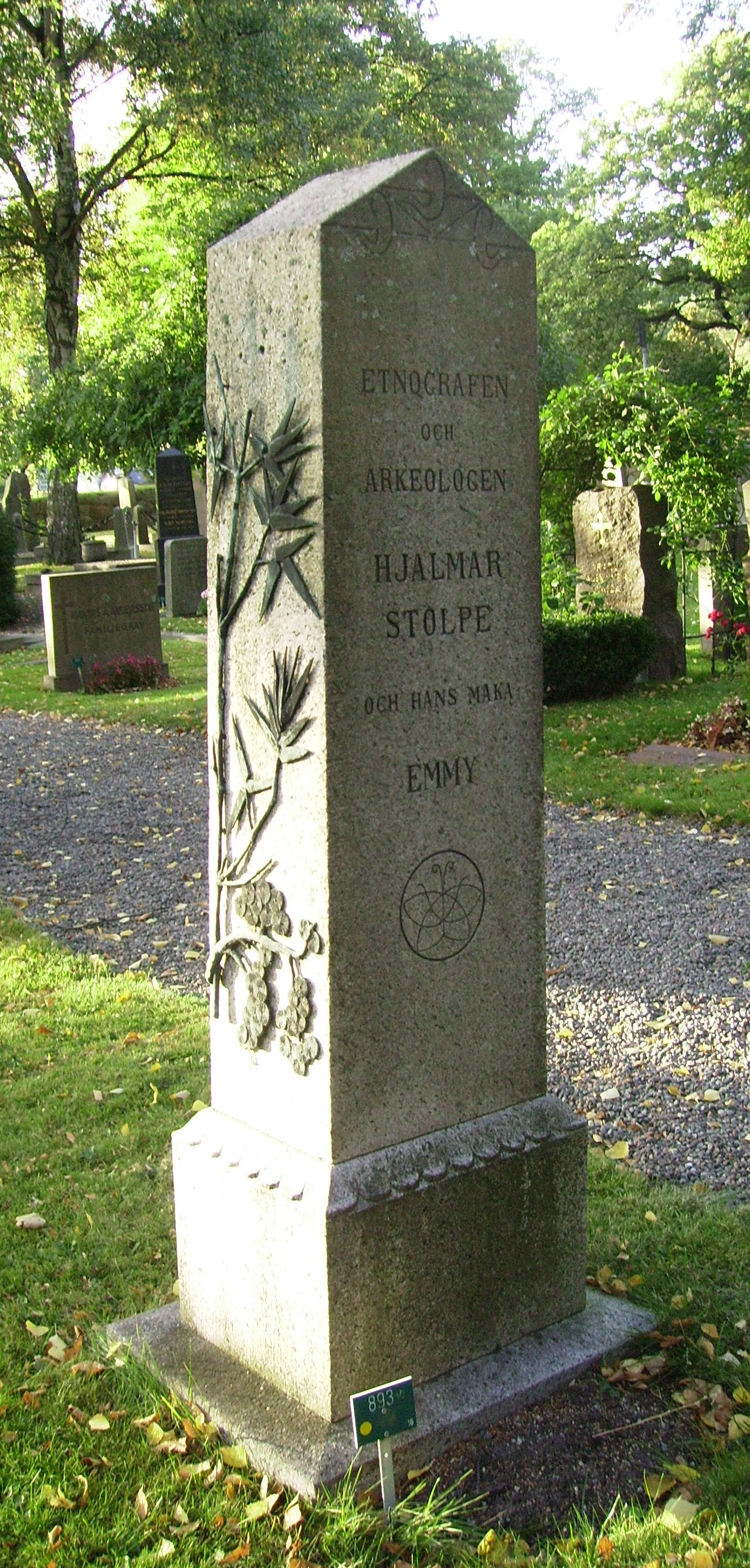 Picture of Hjalmar Stolpe's grave at Solna kyrkogård